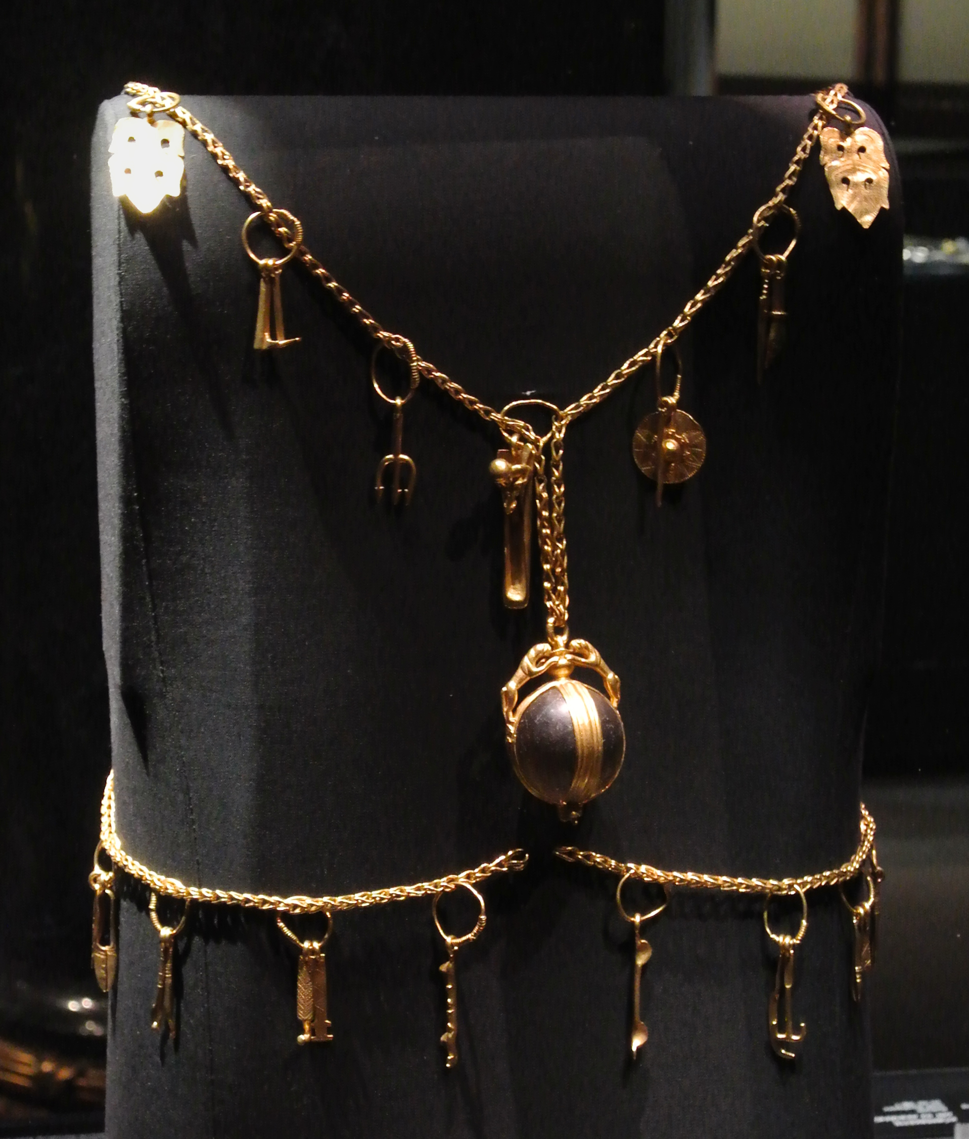 Body chain with 52 pendant amulets (charms), East Germanic (Gepidic?)